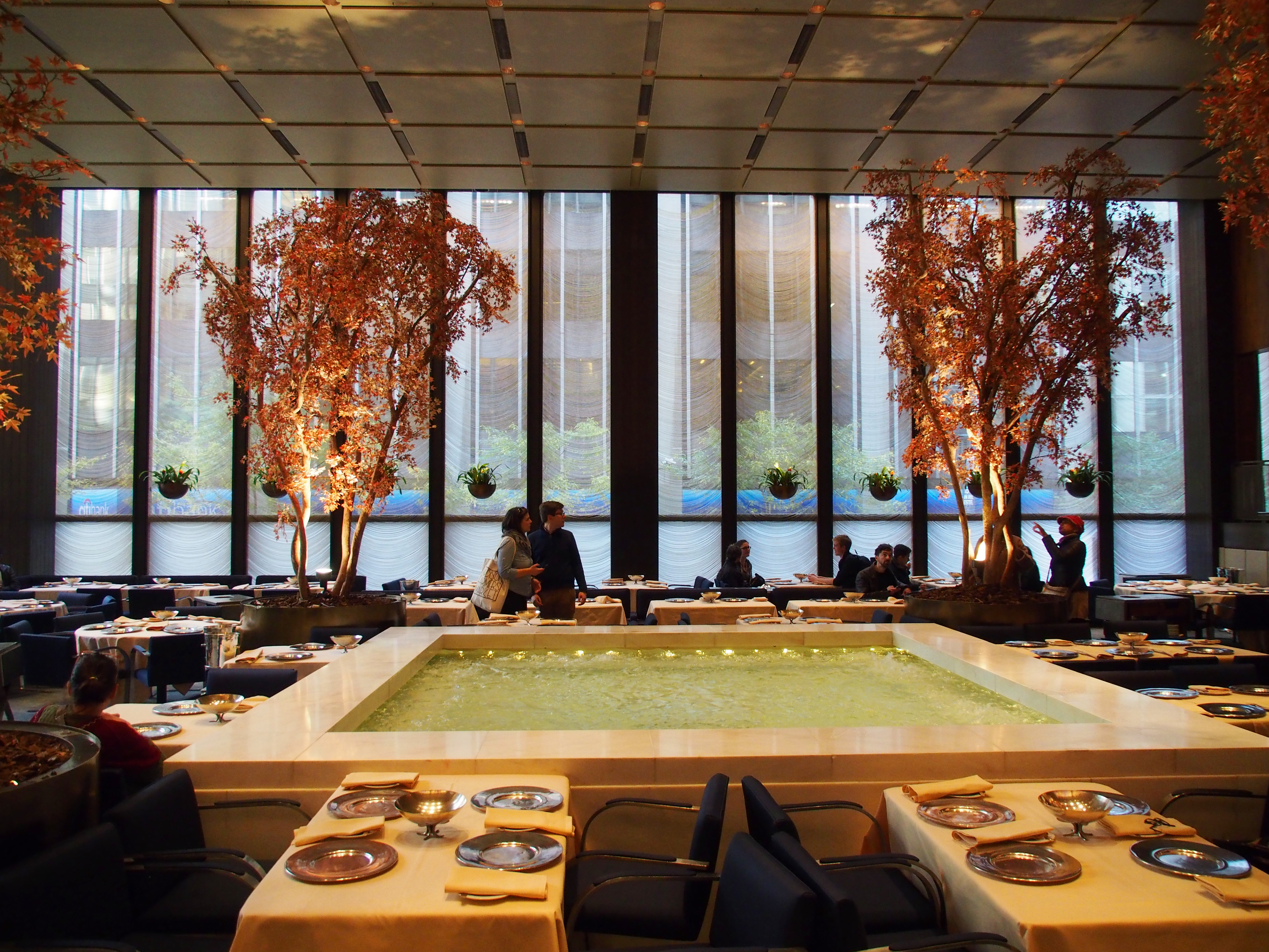 An overview shot of the room with the trees. Site: Four Season Restaurant